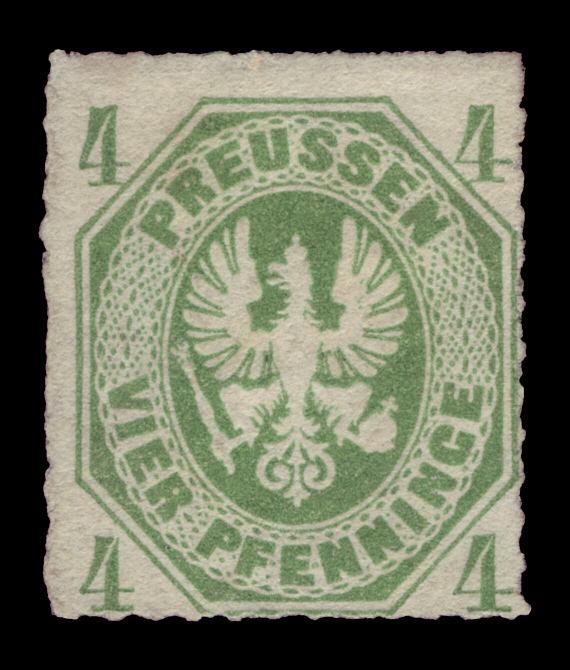 Definitive stamp: eagle inside an octagon Ausgabepreis: 4 Pfennige First Day of Issue / Erstausgabetag: 19. November 1861 Michel-Katalog-Nr: 14 (Preußen)